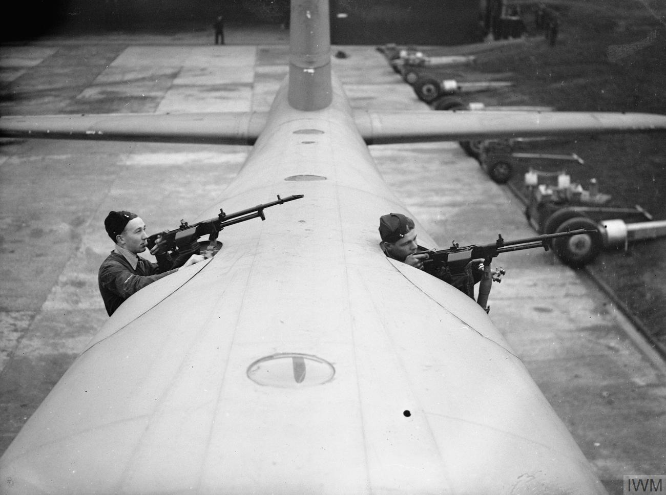 Royal Air Force 1939-1945- Coastal Command Two airmen demonstrate the dorsal .303in Vickers 'K' guns of a Sunderland of No 210 Squadron at Pembroke Dock, December 1939.